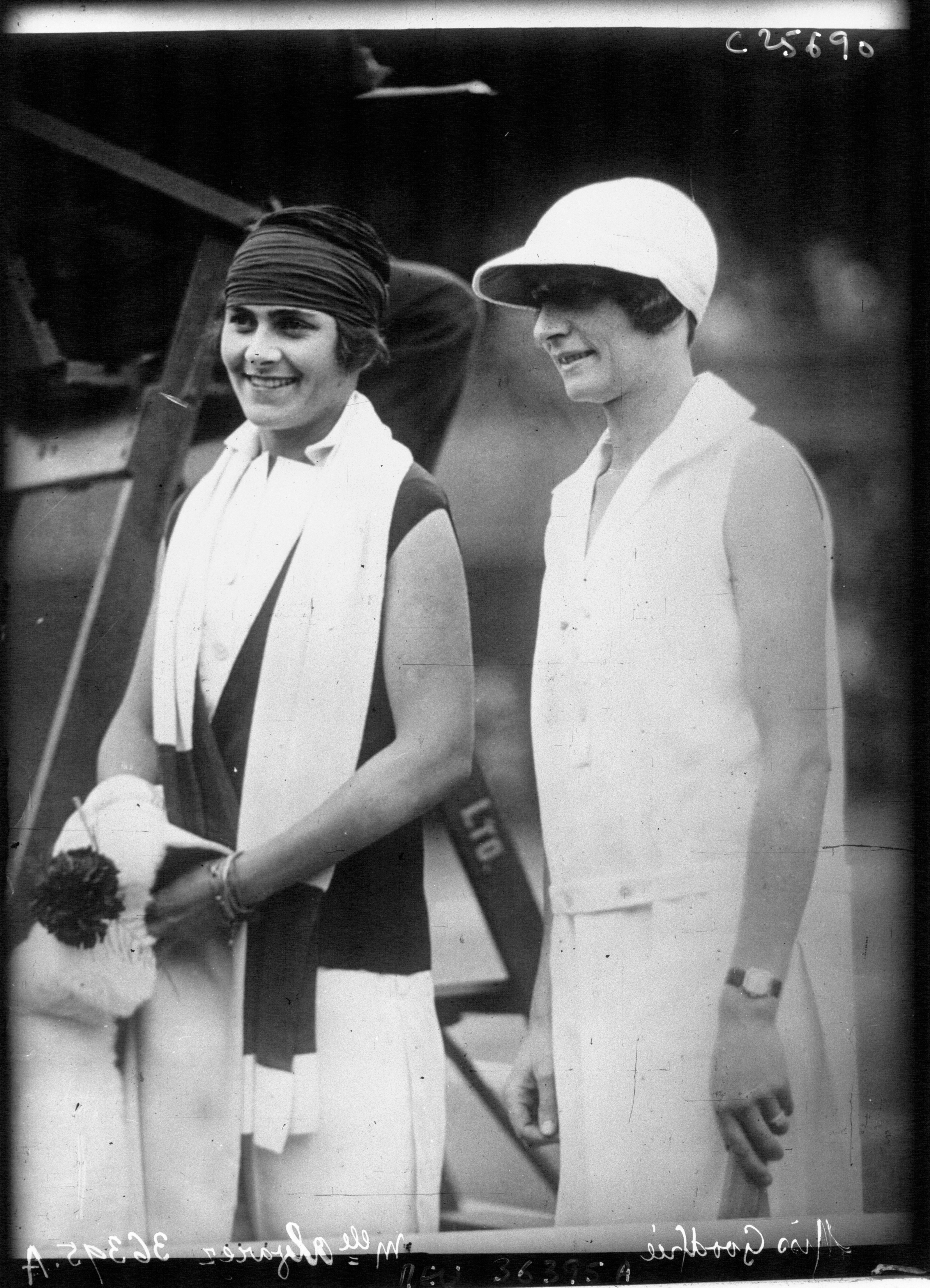 Spanish tennis player Lili de Alvarez (left) and British tennis player Kitty Godfree (right) at the 1926 Wimbledon Championships ladies singles final.